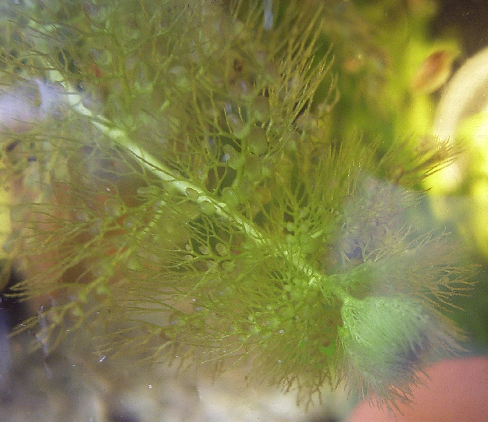 Utricularia vulgaris Author: Denis Barthel